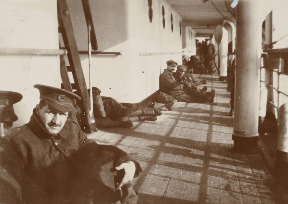 On_the_Deck_of_the_HMHS_Salta